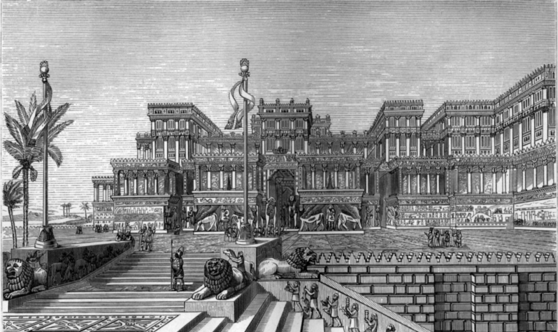 Wood engraving of "The thrones and palaces of Babylon and Nineveh" by John Philip Newman.